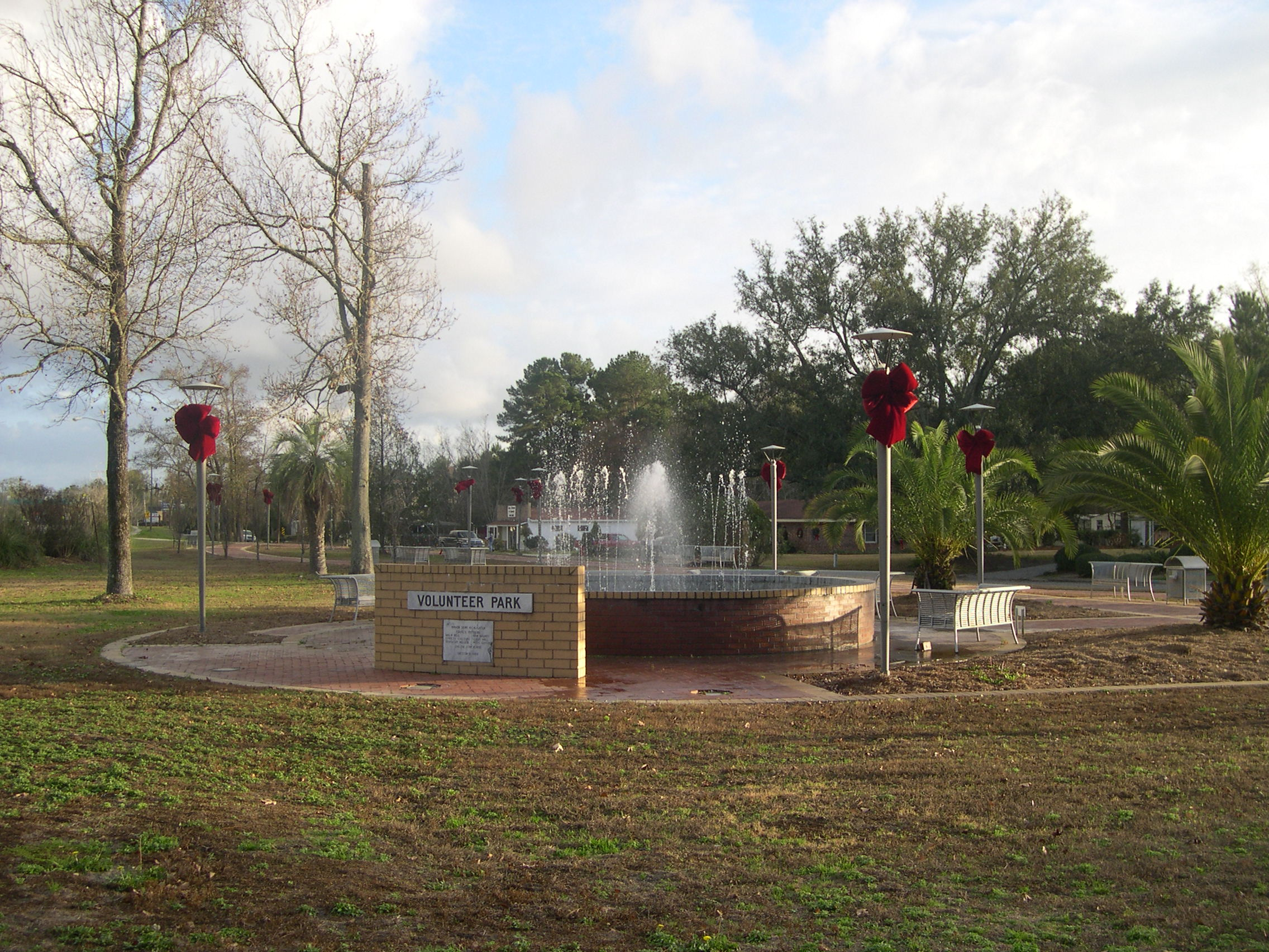 Volunteer Park, located at 5100 Augusta Road (Highway 21), Garden City, Georgia